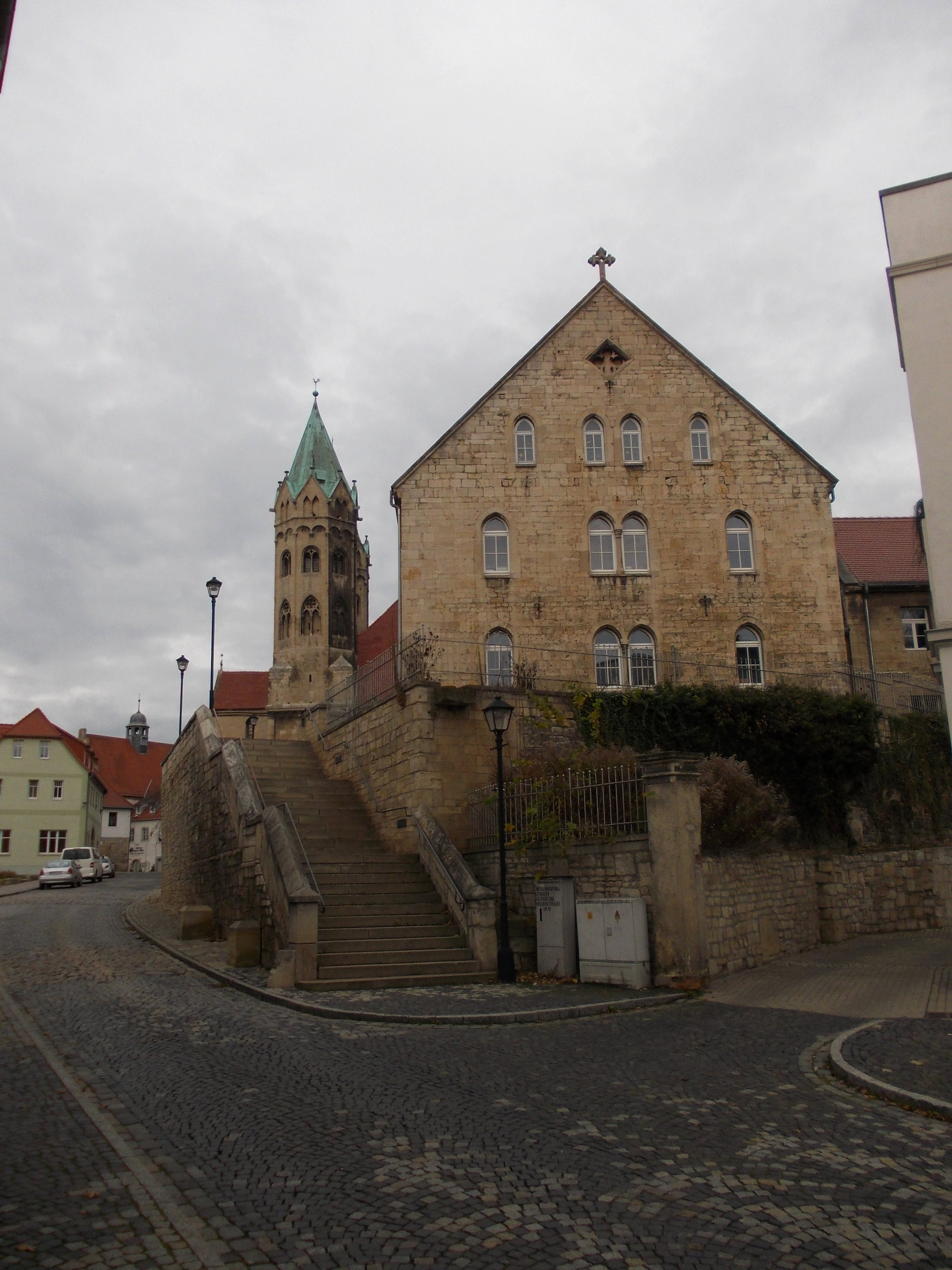 Courthouse stairs in Freyburg/Unstrut (district of Burgenlandkreis, Saxony-Anhalt)